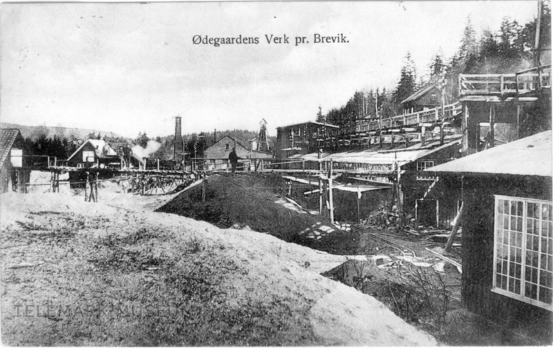 Ødegårdens Verk in Bamble. Date listed as 1917.